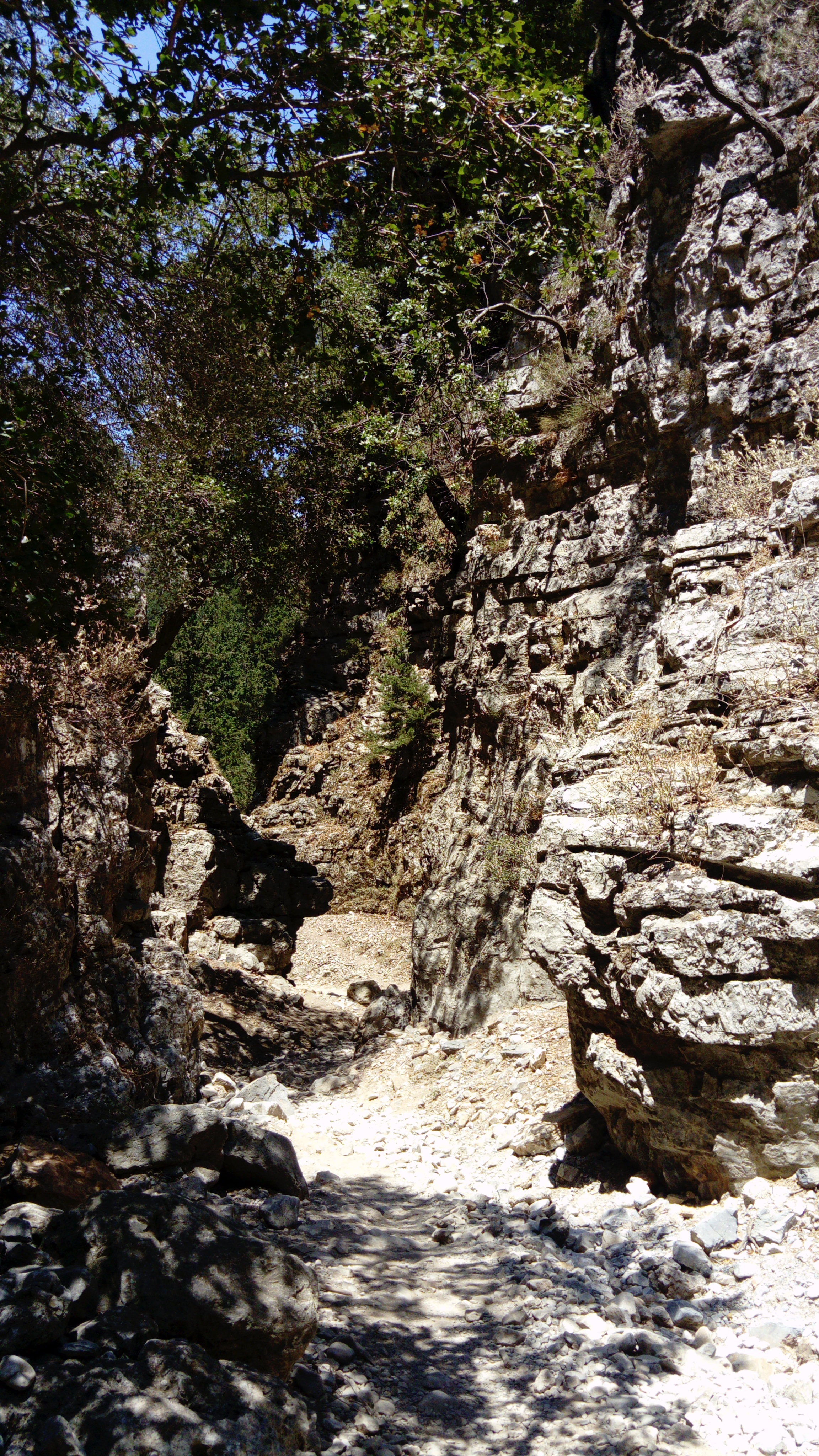 A passage from the 8-kilometre-long Imbros Gorge on the Greek island of Crete, in August 2018.